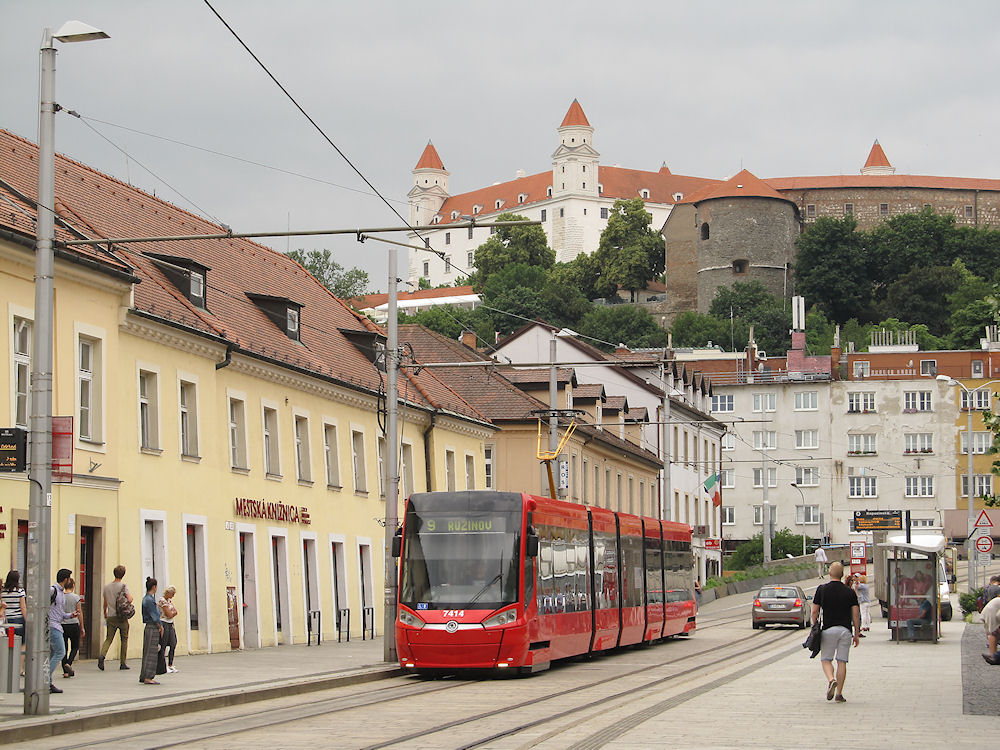 Škoda 29T 7414, tram line 9, Bratislava, 2018